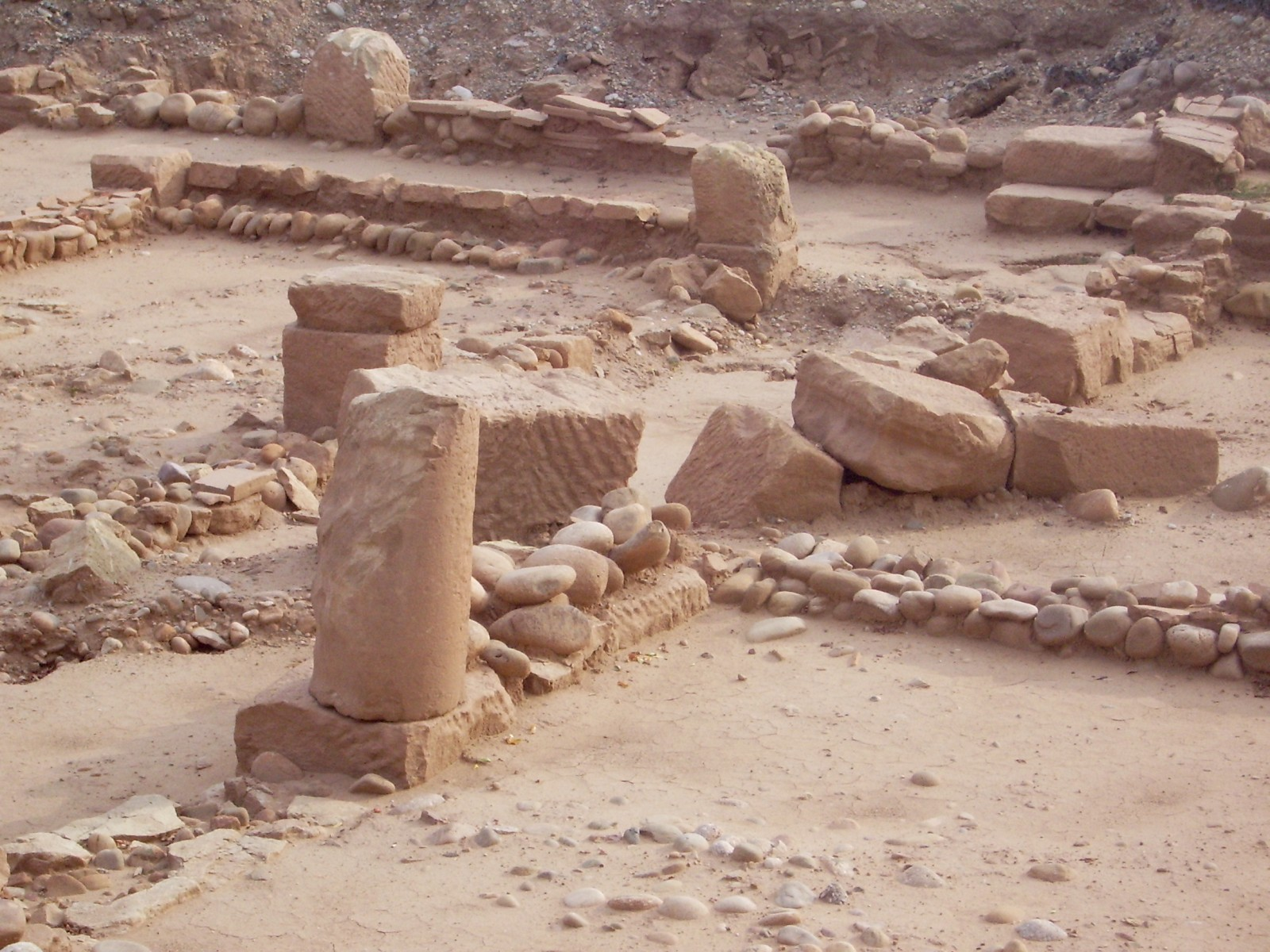 Closer view of Roman ruins in Varea, near Logroño (Spain). This old village was known as "Vareia".